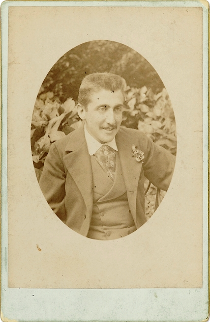 Marcel Proust, photographie anonyme vers 1892. Sur carton, cliché au format 91 x 75 mm. Collection Mantes-Proust, vente Sotheby's, Paris 31 mai 2016 (n°144).